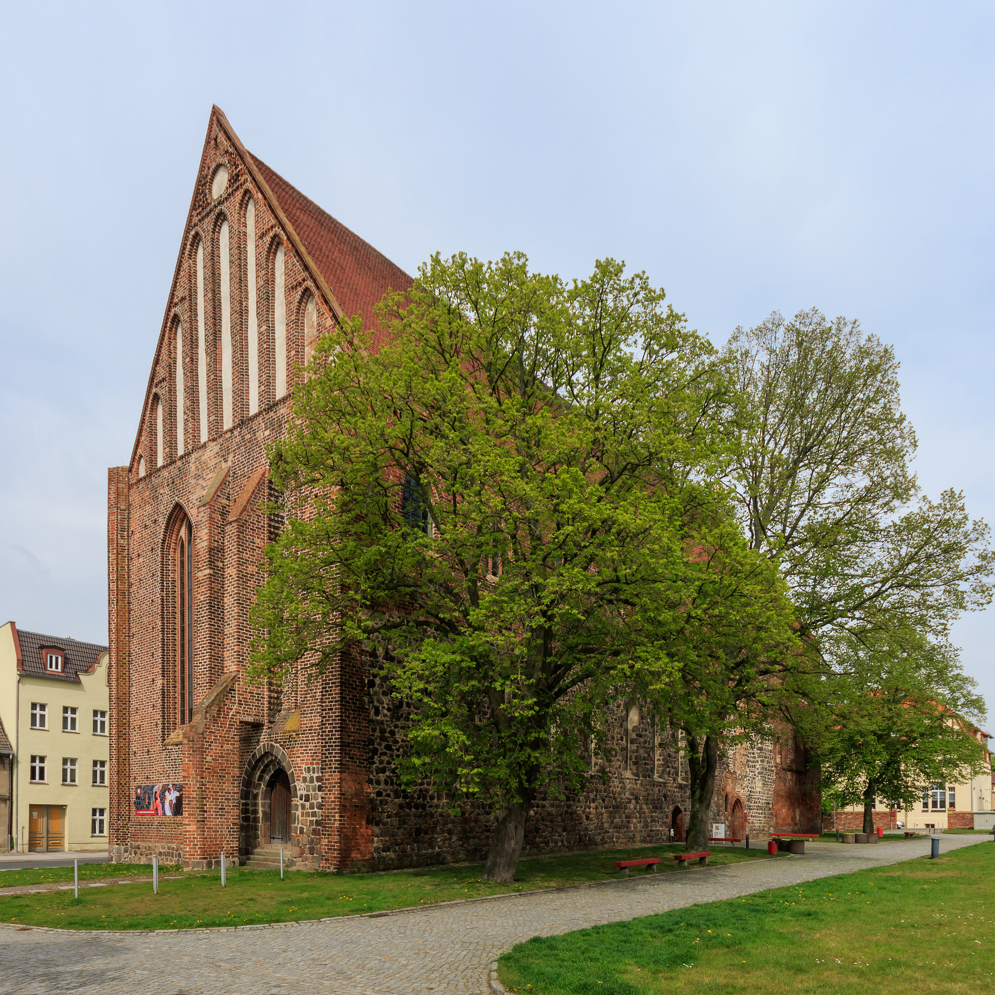 St. Peter and Paul Church in Angermünde (Brandenburg/Germany)